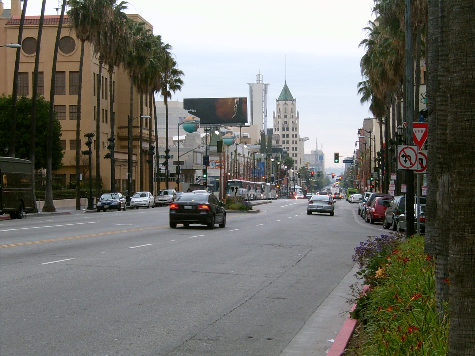 Hollywood Boulevard, in Los Angeles, California.